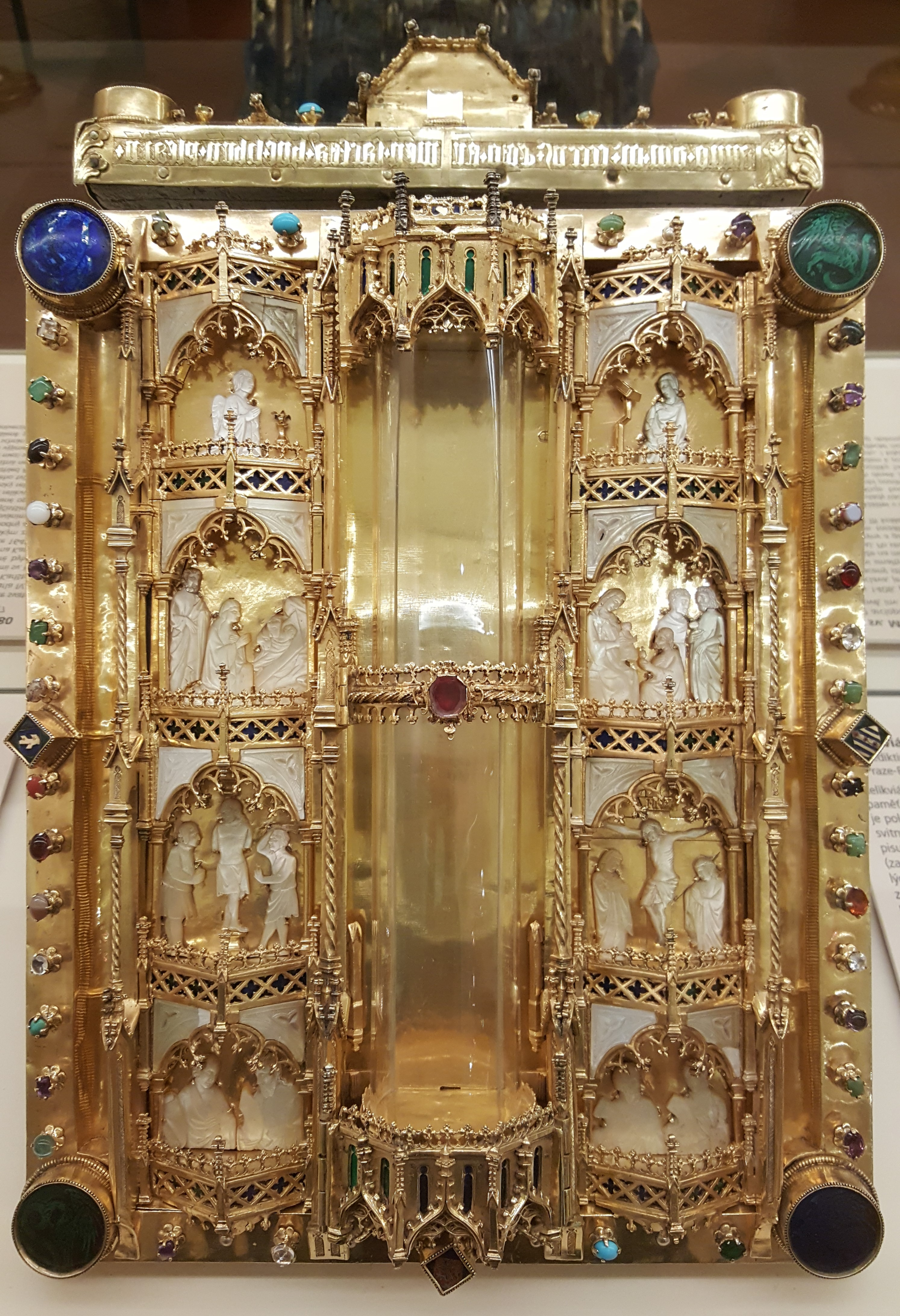 Silver reliquary of st. Margaret, for the humerus bone of the saint. (1406, adjustments 1653), Břevnov Monastery Inv. No. B-24